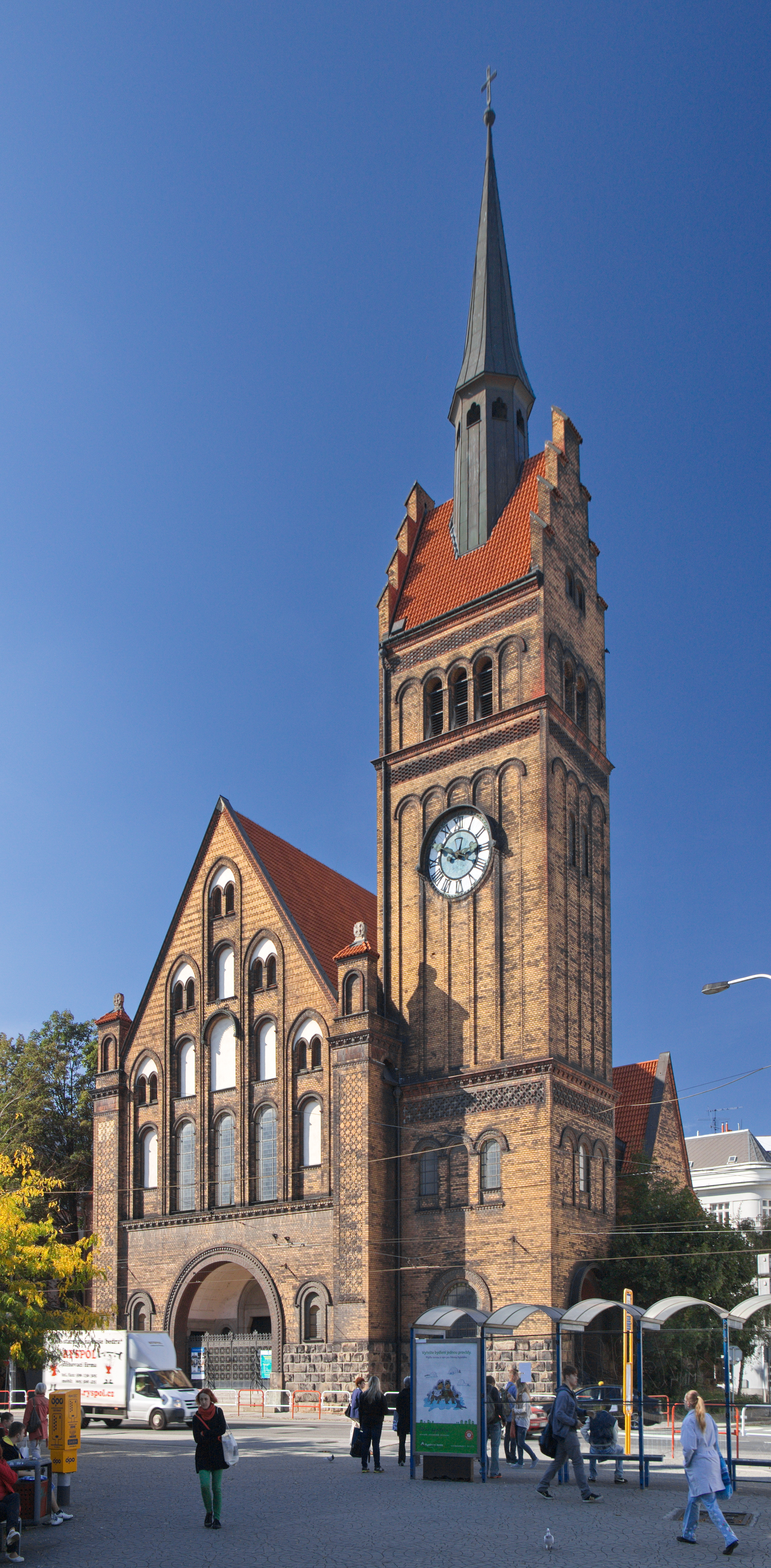 Evangelical Church of Christ, Moravská Ostrava, Českobratrská street, Ostrava. Moravian-Silesian Region, Czech Republic.